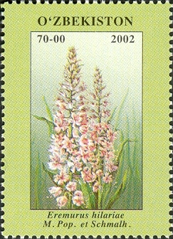 Stamps of Uzbekistan, 2002